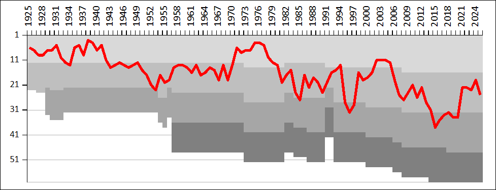 A chart showing the progress of Landskrona BoIS through the Swedish football league system. Horizontal black lines represent league divisions.